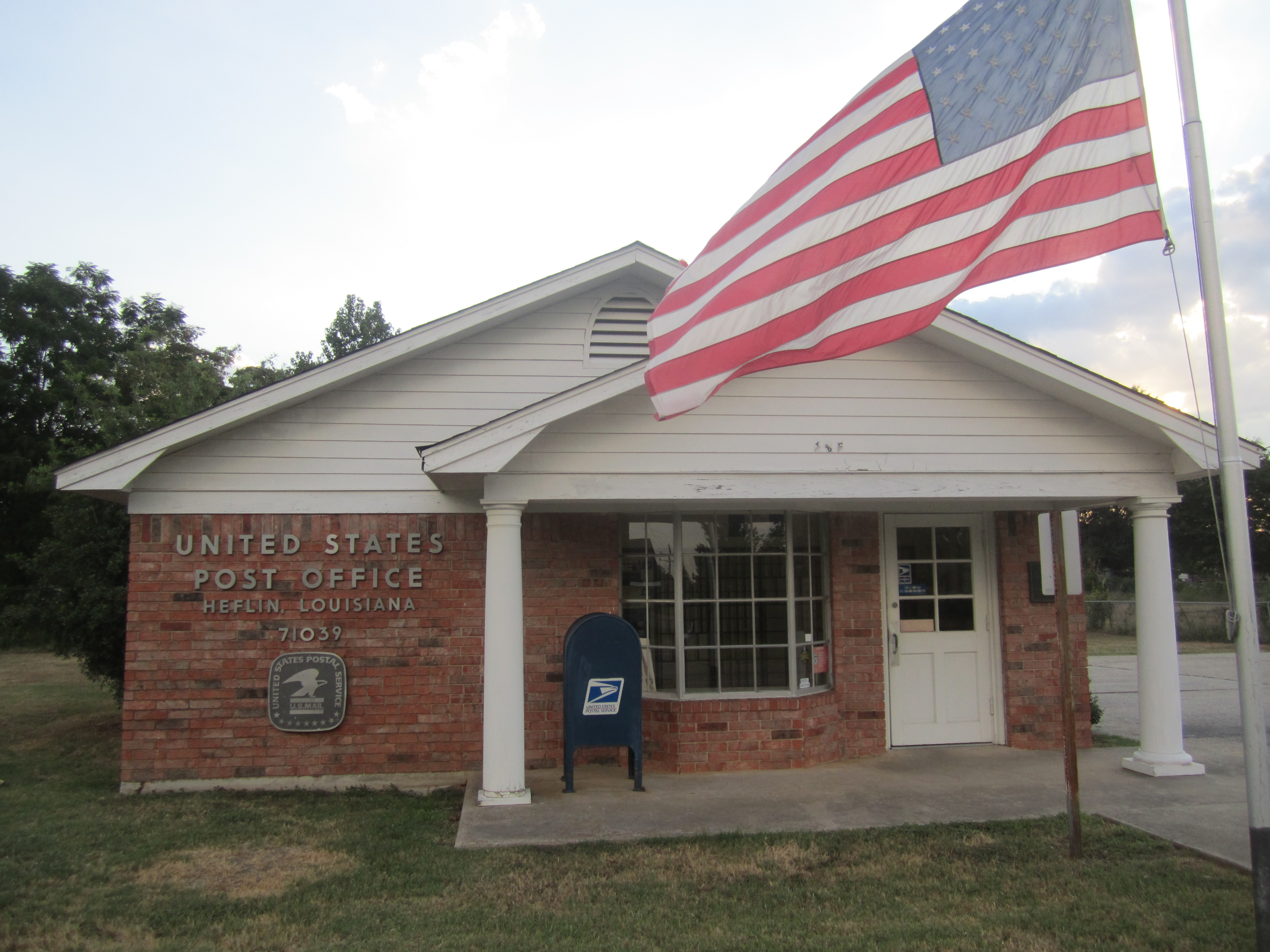 I took photo with Canon camera of U.S. Post Office in Heflin, LA.